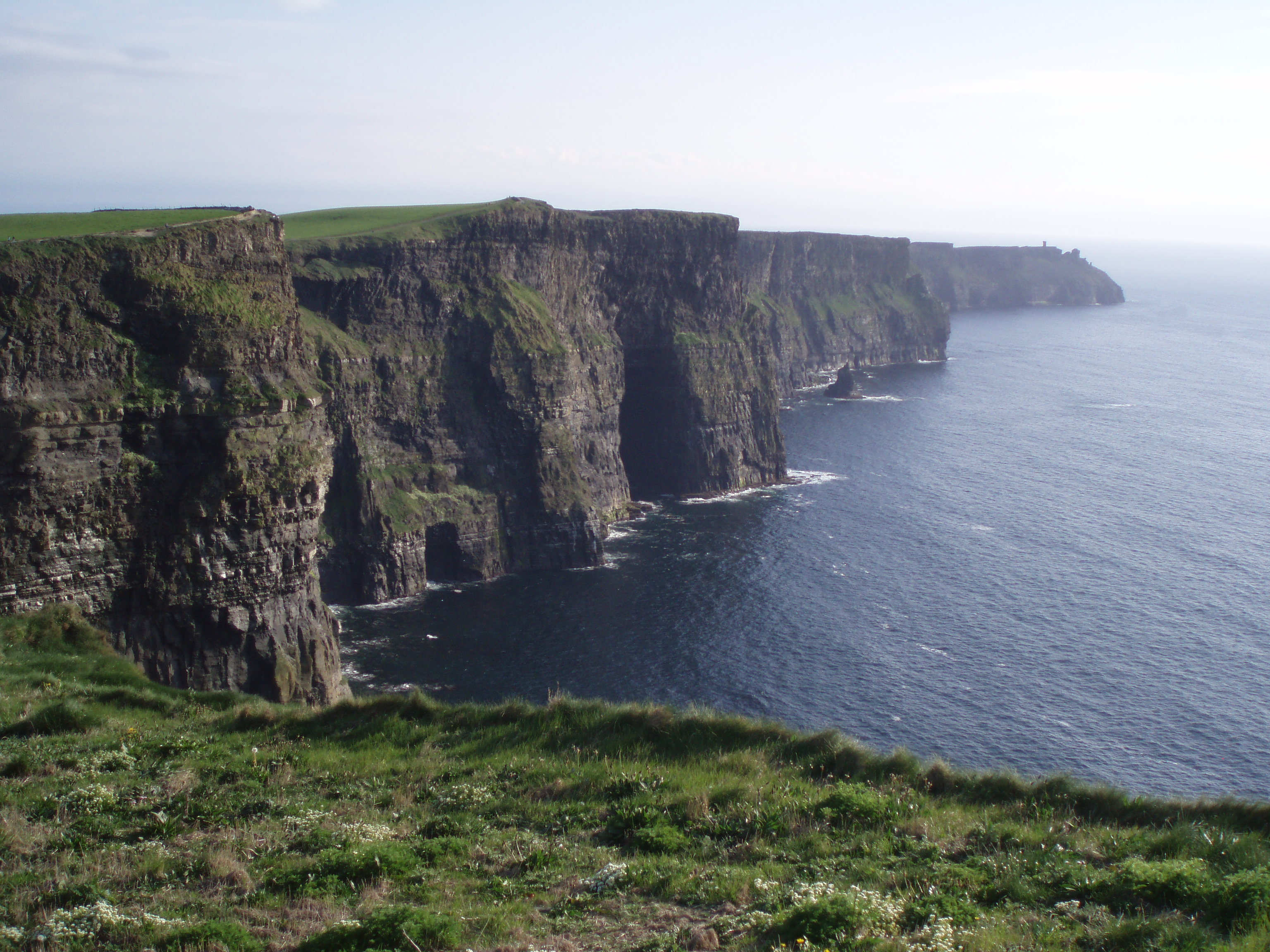 View over the Cliffs of Moher from the bottom of the O'Brien tower